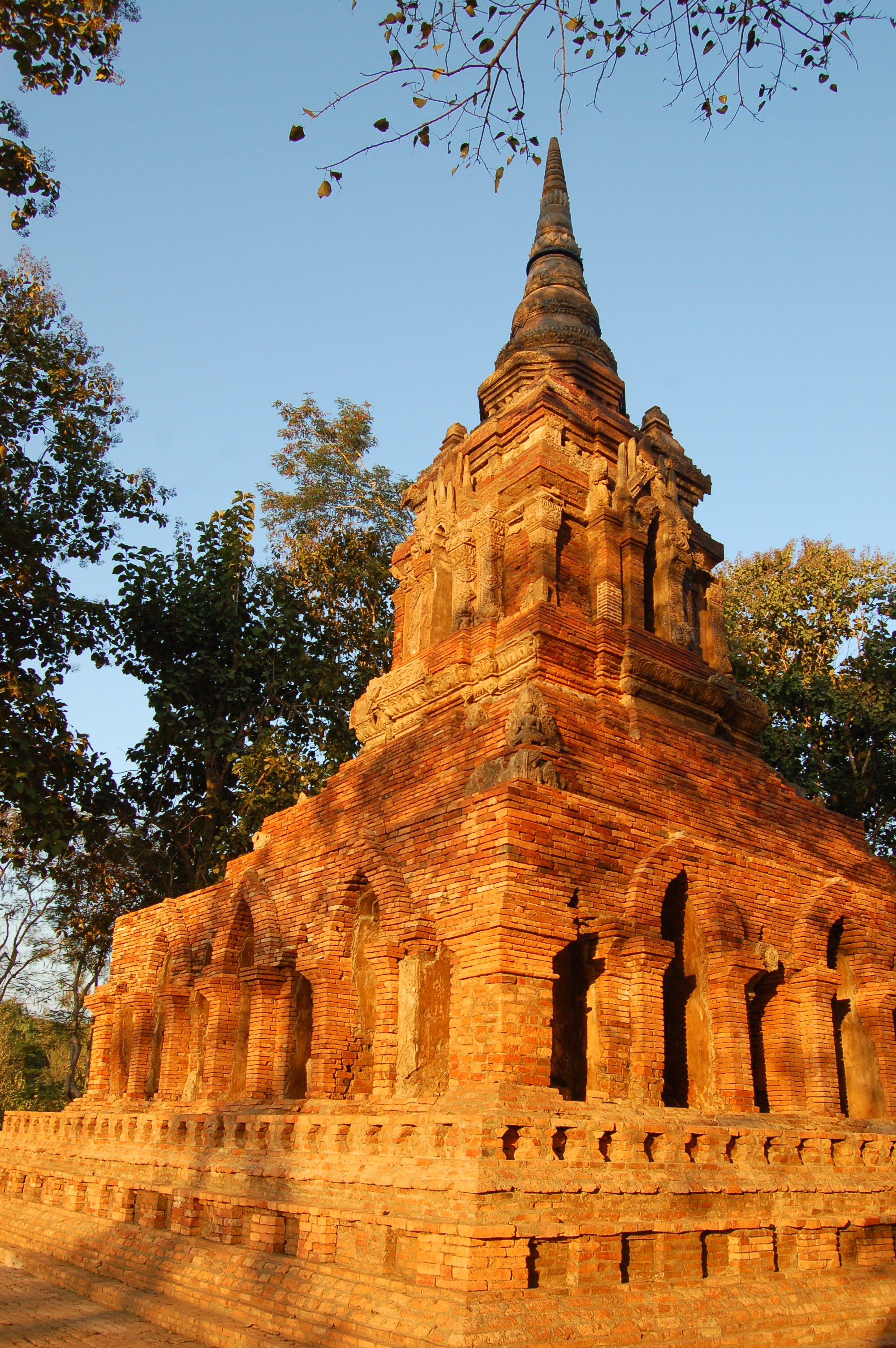 Wat Pa Sak, Chiang Saen, northern Thailand